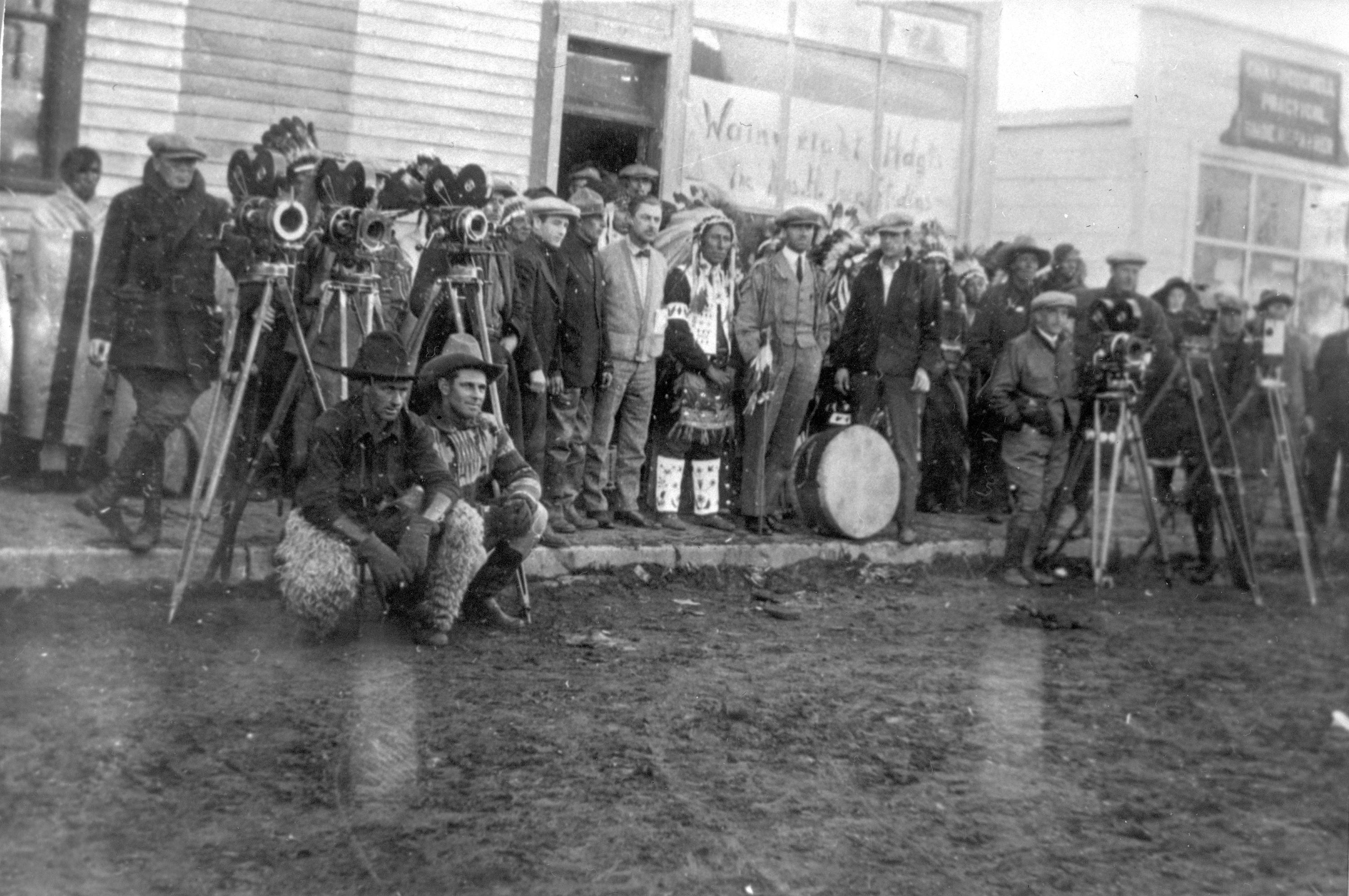 The Thundering Herd was a 1925 Western film starring Jack Holt. It also featured Gary Cooper in an early, uncredited role. A5596